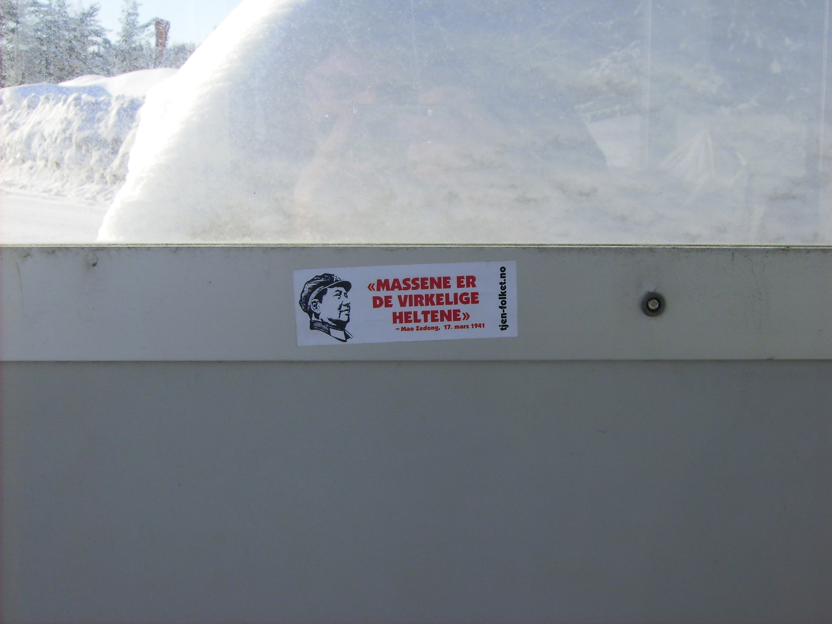 A label from the Norwegian communist group Tjen folket (Serv the people). The text says "The masses are the real heroes".